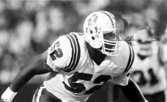 New England Patriots' linebacker Johnny Rembert during an National Football League game circa 1988.